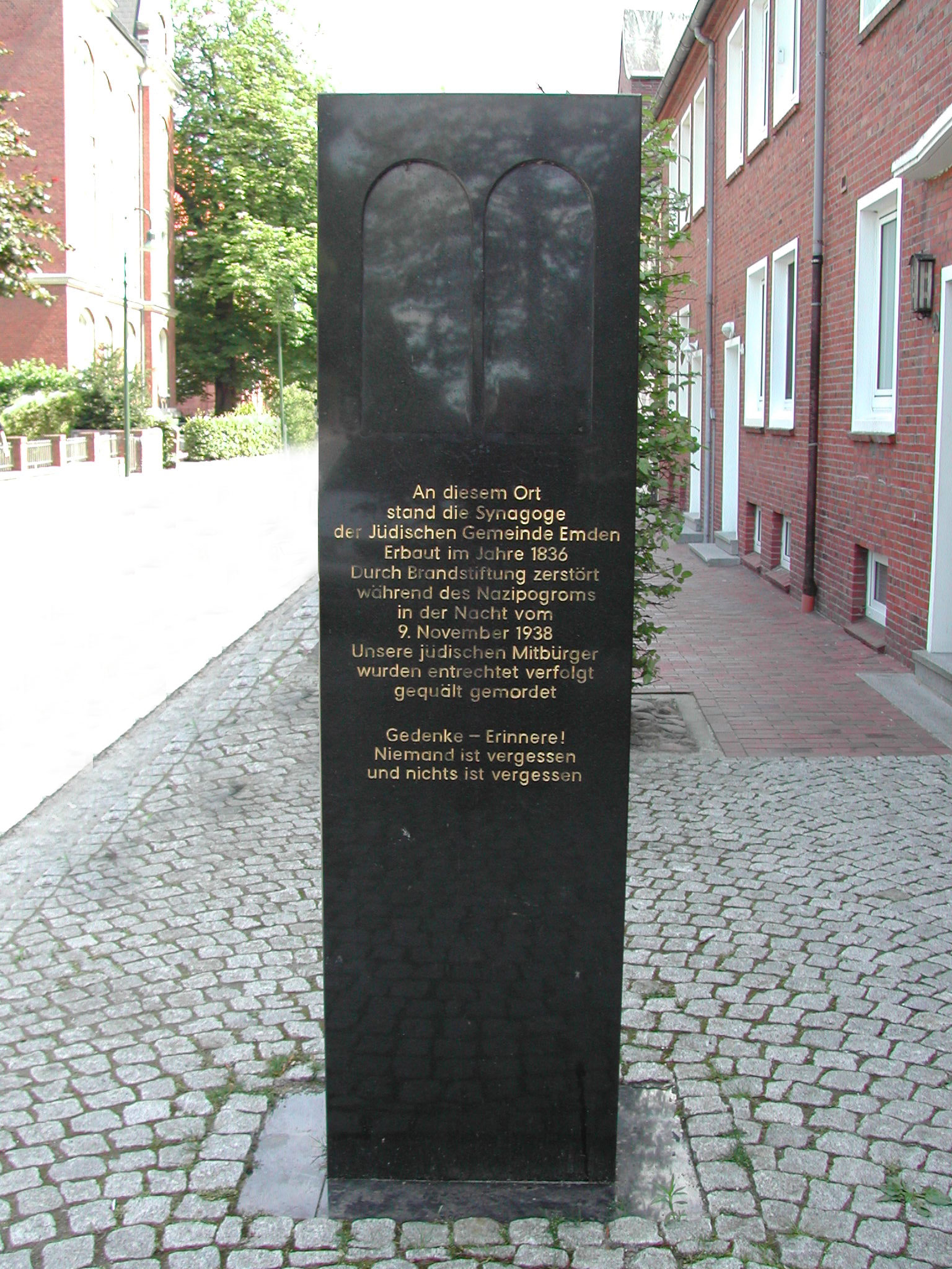 jewish memorial in Emden